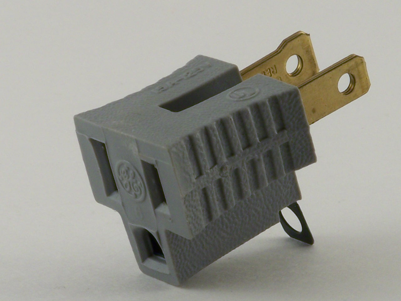 A cheater plug, also known as a three-prong/two-prong adapter. The adapter allows a NEMA 5–15P grounding mains plug to connect to a NEMA 1–15R non-grounding receptacle.